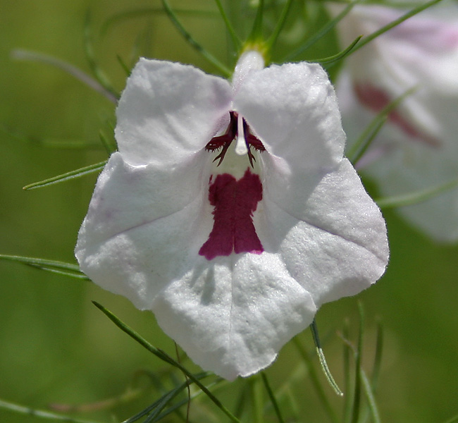 Common Sopubia or Dudhali Sopubia delphinifolia in Hyderabad , India.